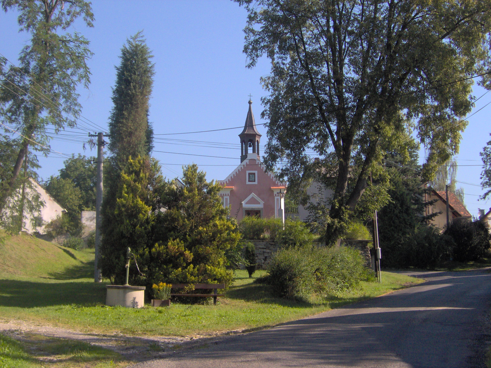 Chapel in Droužetice, Strakonice District, Czech republic